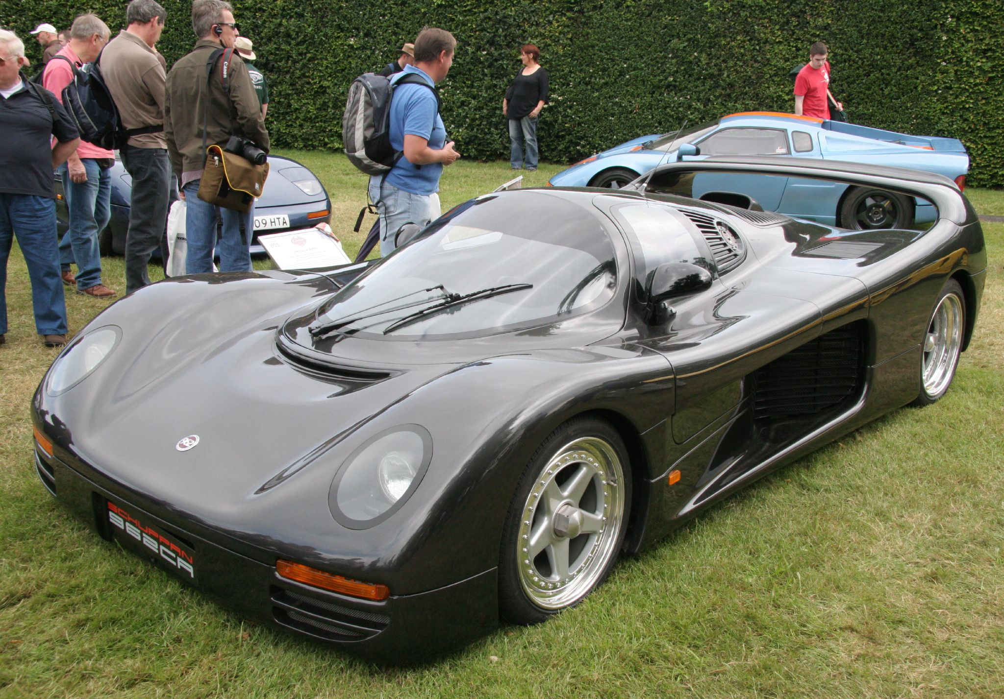 A Schuppan 962CR at the 2007 Goodwood Festival of Speed